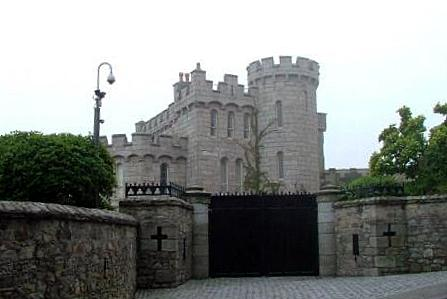 View of Manderley Castle.